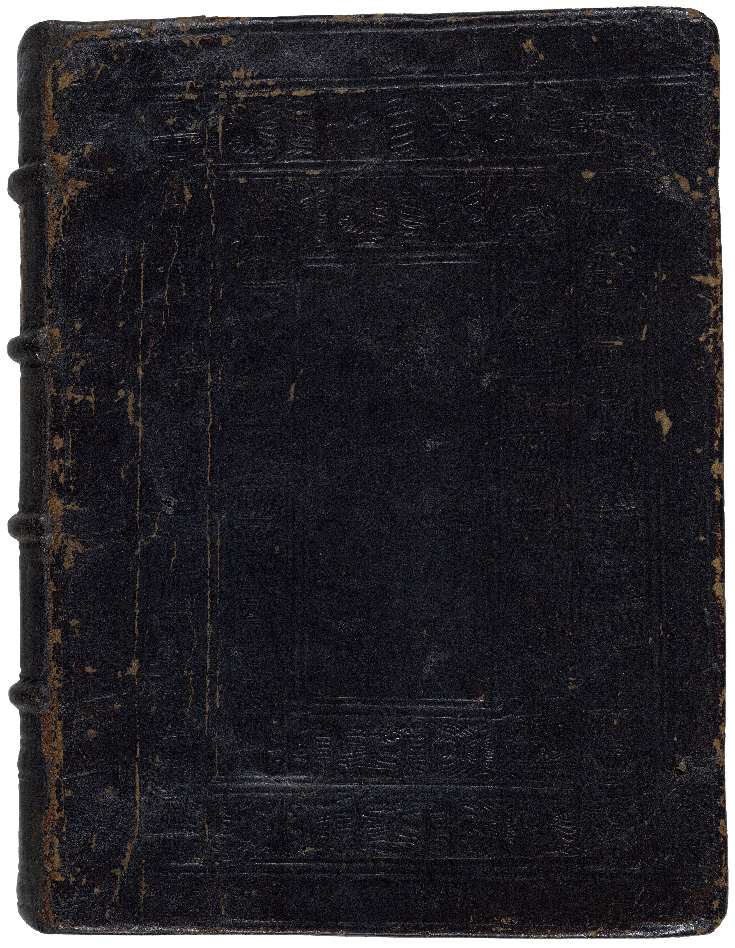 This is the front cover of 1518 Thomas More's Utopia copy owned by The Folger Shakespeare Library